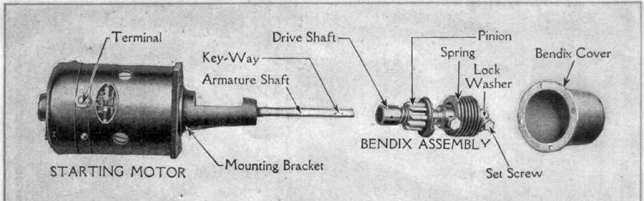 starter and generator units